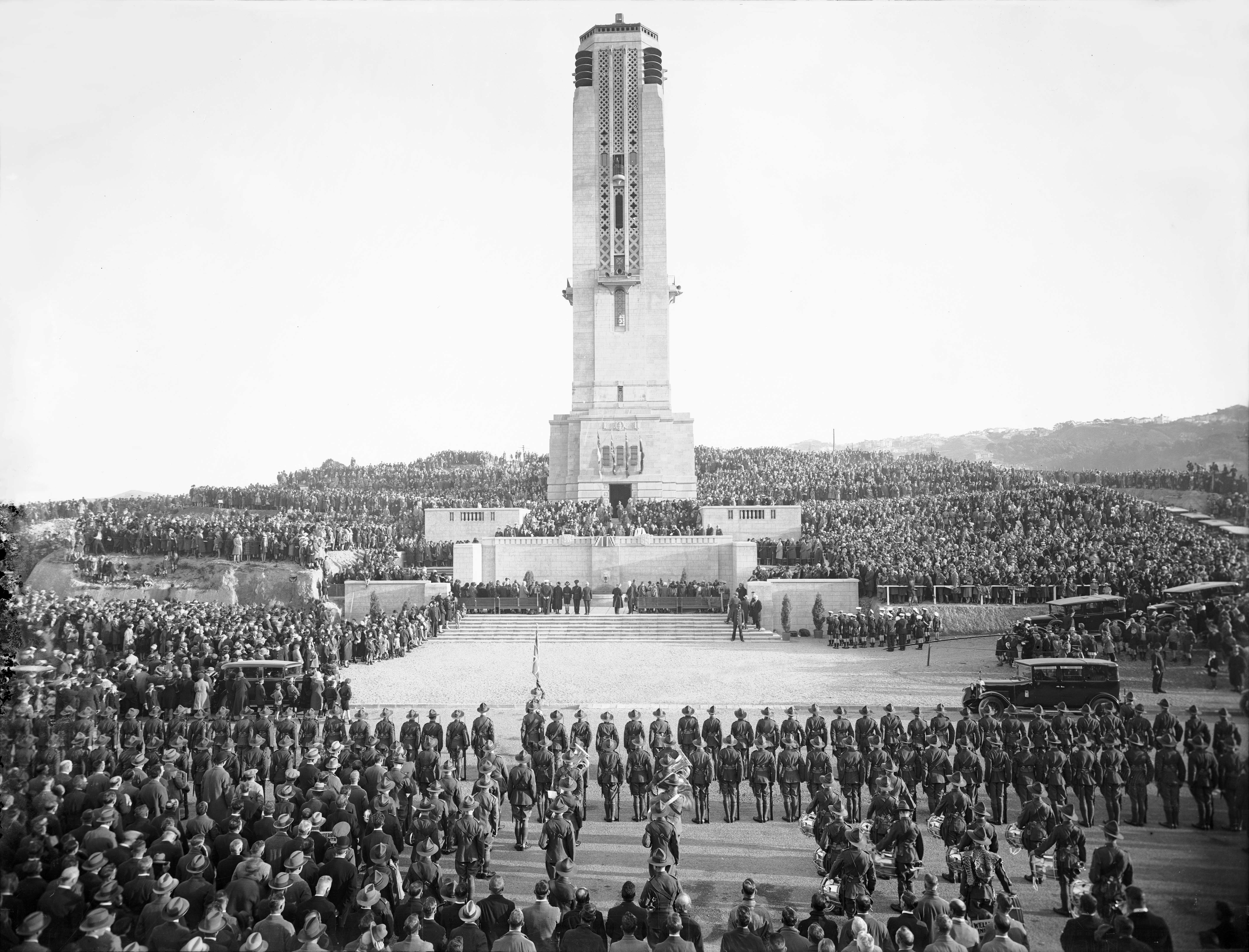 Edited version of original photo. Original description below: Photographer: William Hall Raine (1892-1955)[1] The dedication of the National War Memorial Carillon, Wellington, 25 April 1932 Reference number: 1/1-018026-G Glass negative Photographic Archive, Alexander Turnbull Library. Heritage New Zealand Register number: 1410.